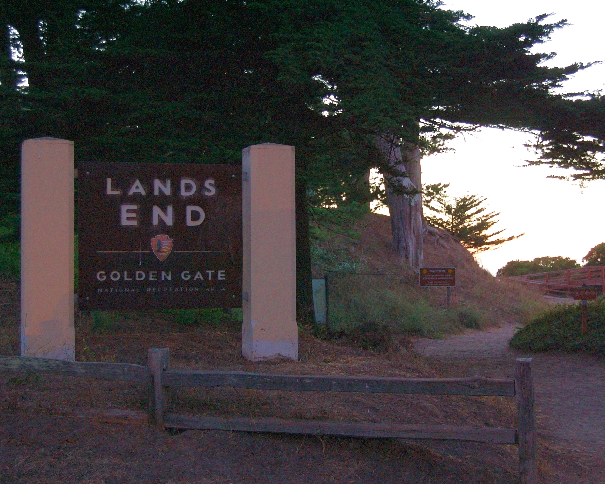 Lands End sign, Golden Gate National Recreation Area, San Francisco